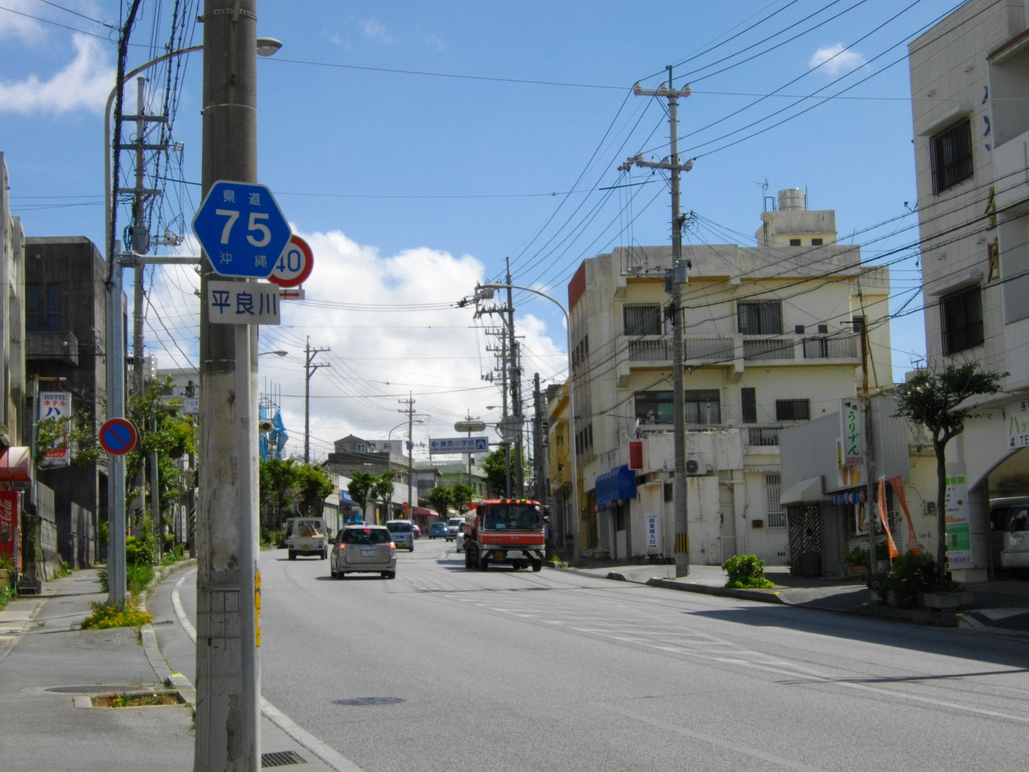 Okinawa prefectural road route 75